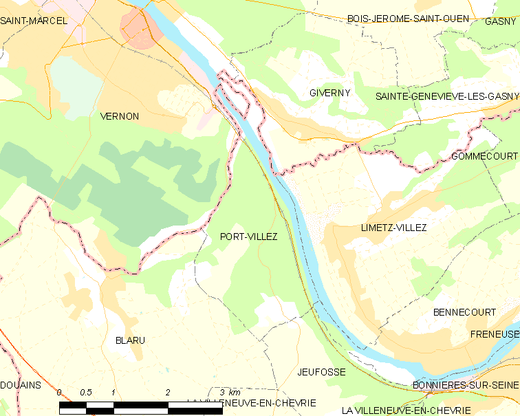 Map of French municipality Port-Villez